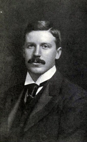 Photograph of Sir Claude Alexander, (of Ballochmyle). Due to publishing date of book, this must be the second Baronet.